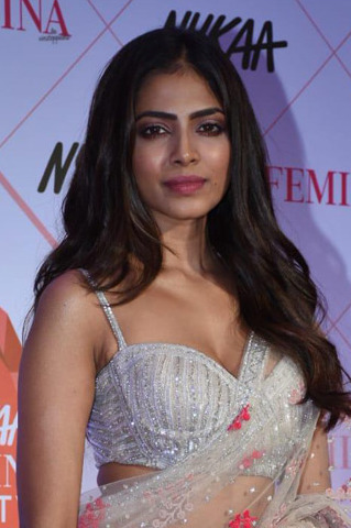 Malavika Mohanan, 6th Nykaa Femina Beauty Awards 2020, Feb 18, Mumbai.